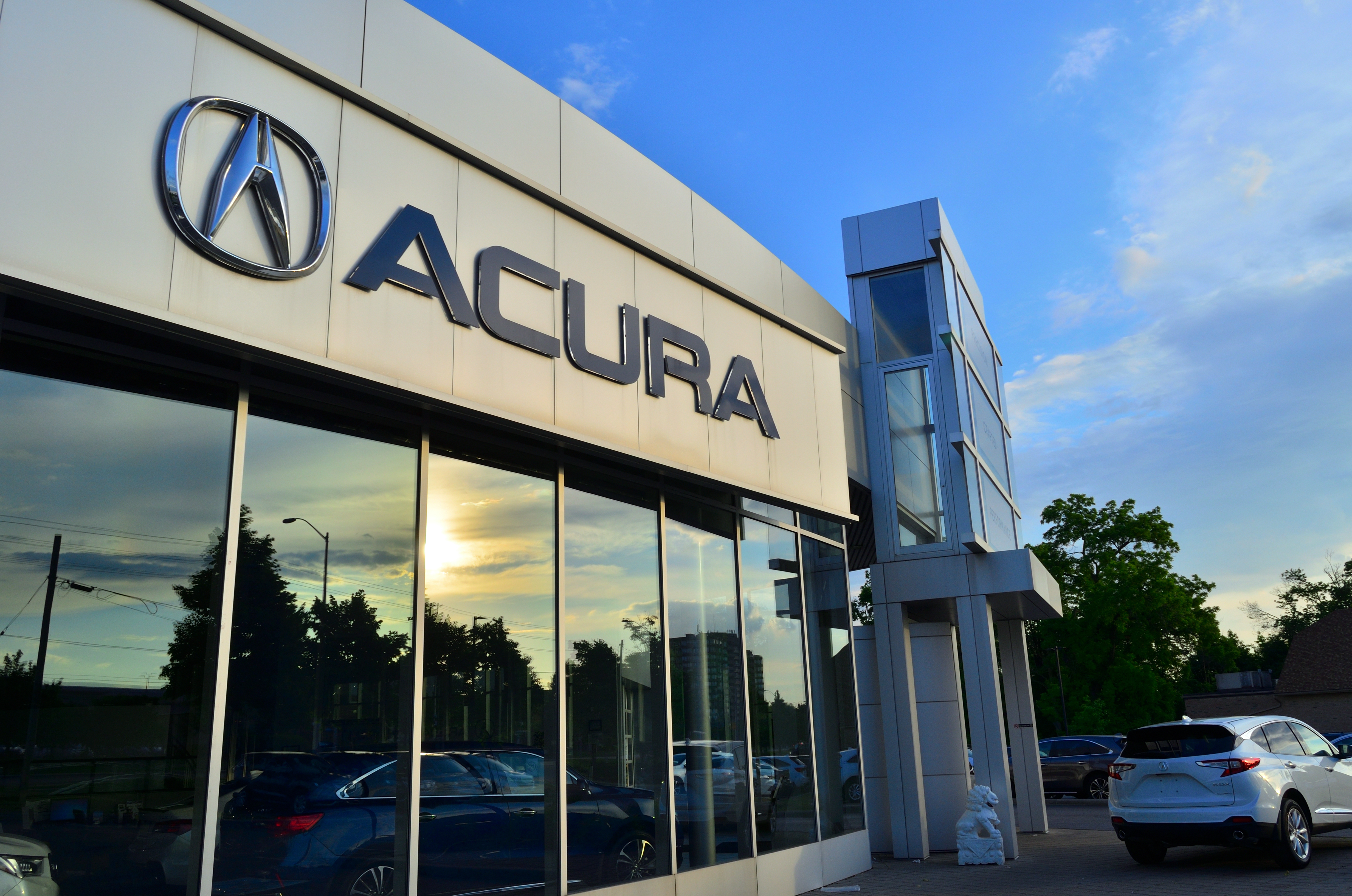 Markham Acura - Address: 5201 Hwy 7, Unionville, ON L3R 1N3